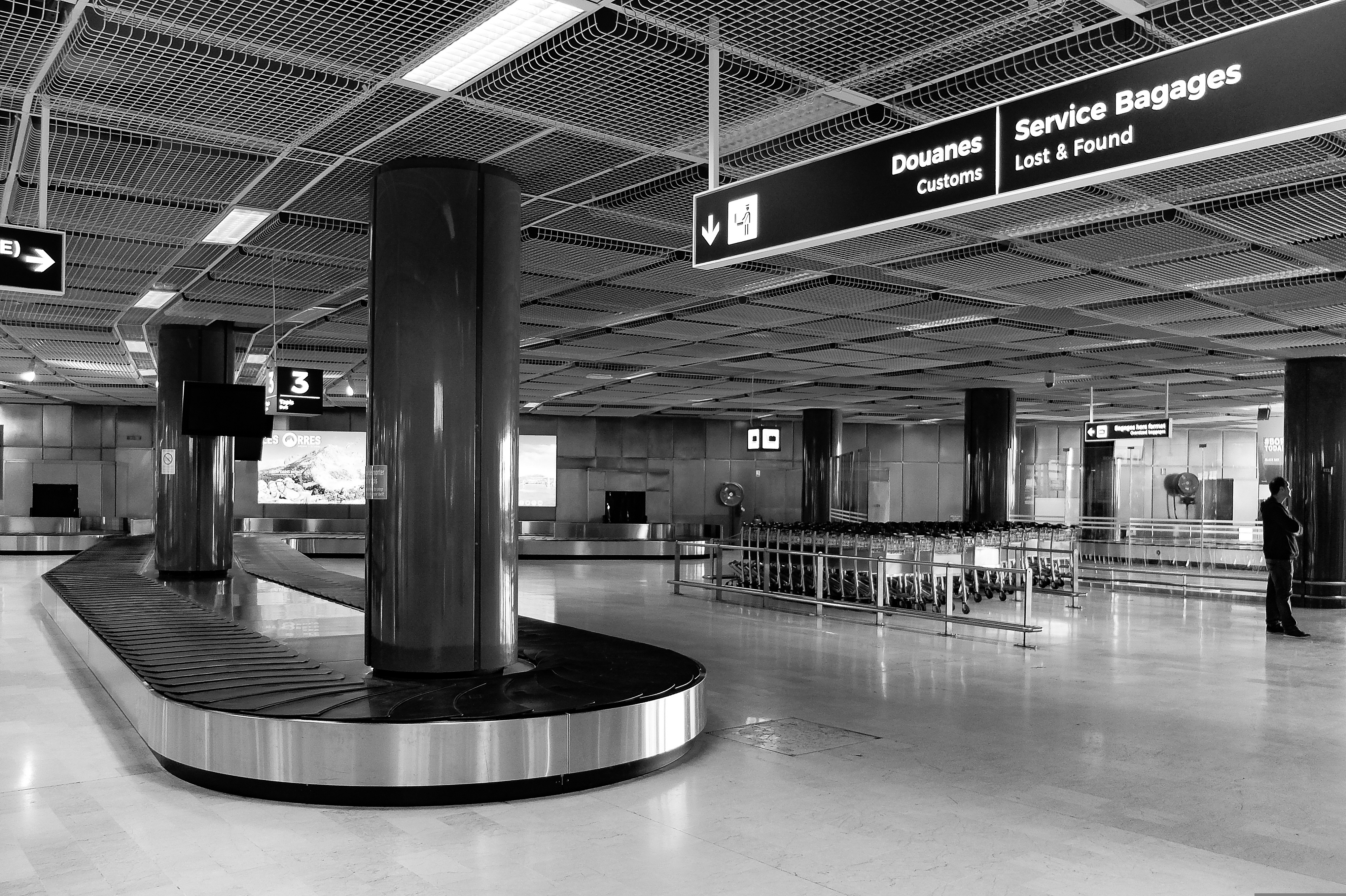 Airport Conveyor